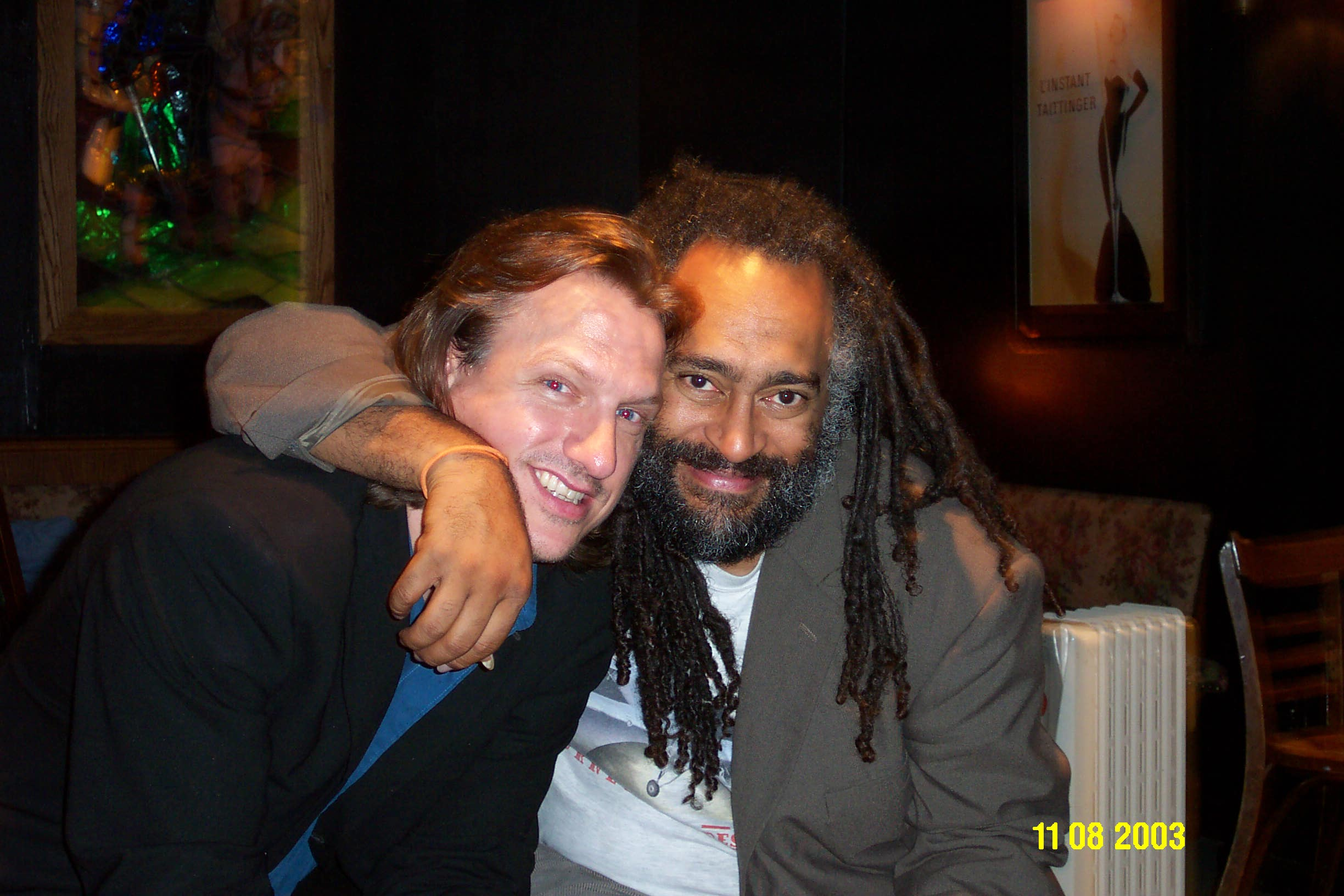 Ellis Paul and Vance Gilbert at the Mucky Duck in Houston, TX.